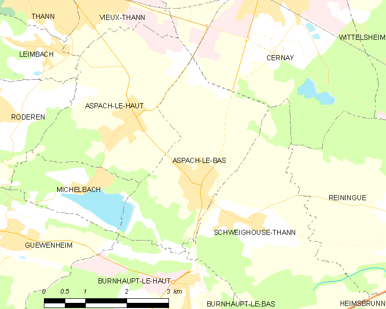 Map of French municipality